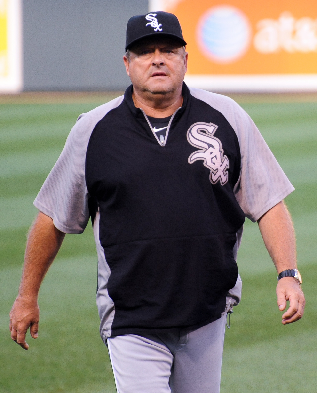 Chicago White Sox pitching coach Don Cooper – White Sox v. Orioles. August 09, 2011, Camden Yards, Baltimore, Maryland.